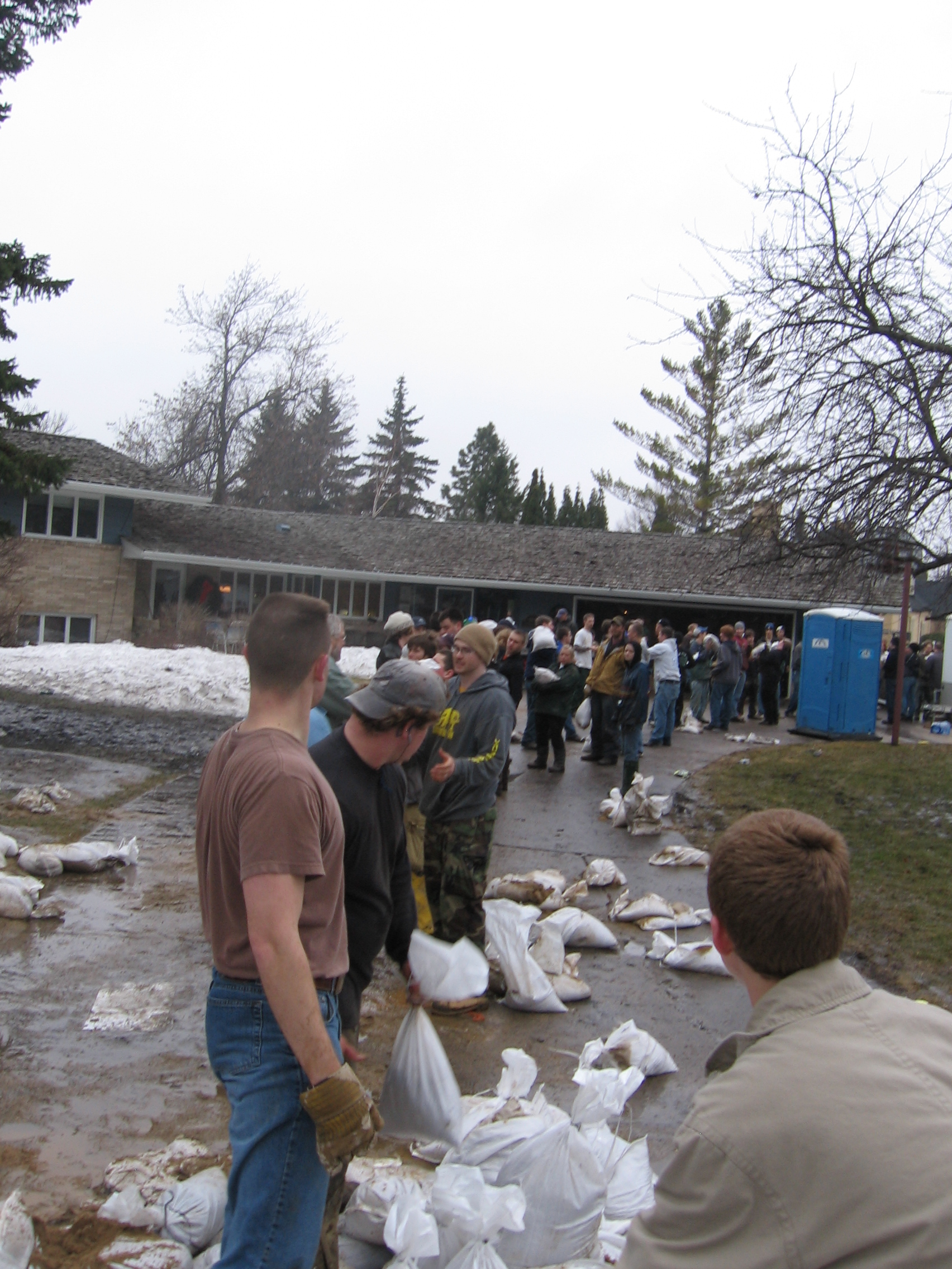 A line of sandbagging volunteers stretches back around a home in Fargo, North Dakota.